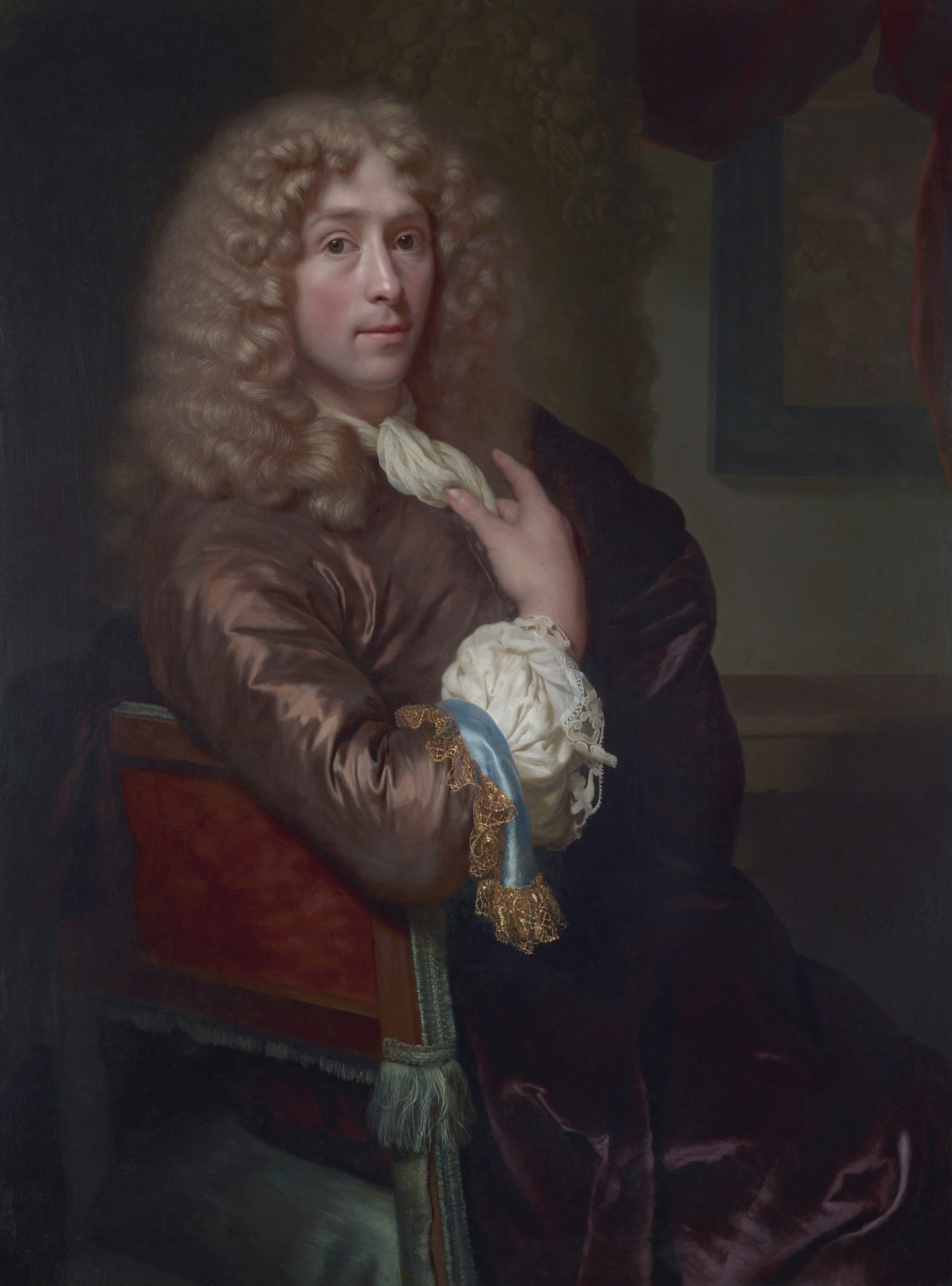 Self-portrait